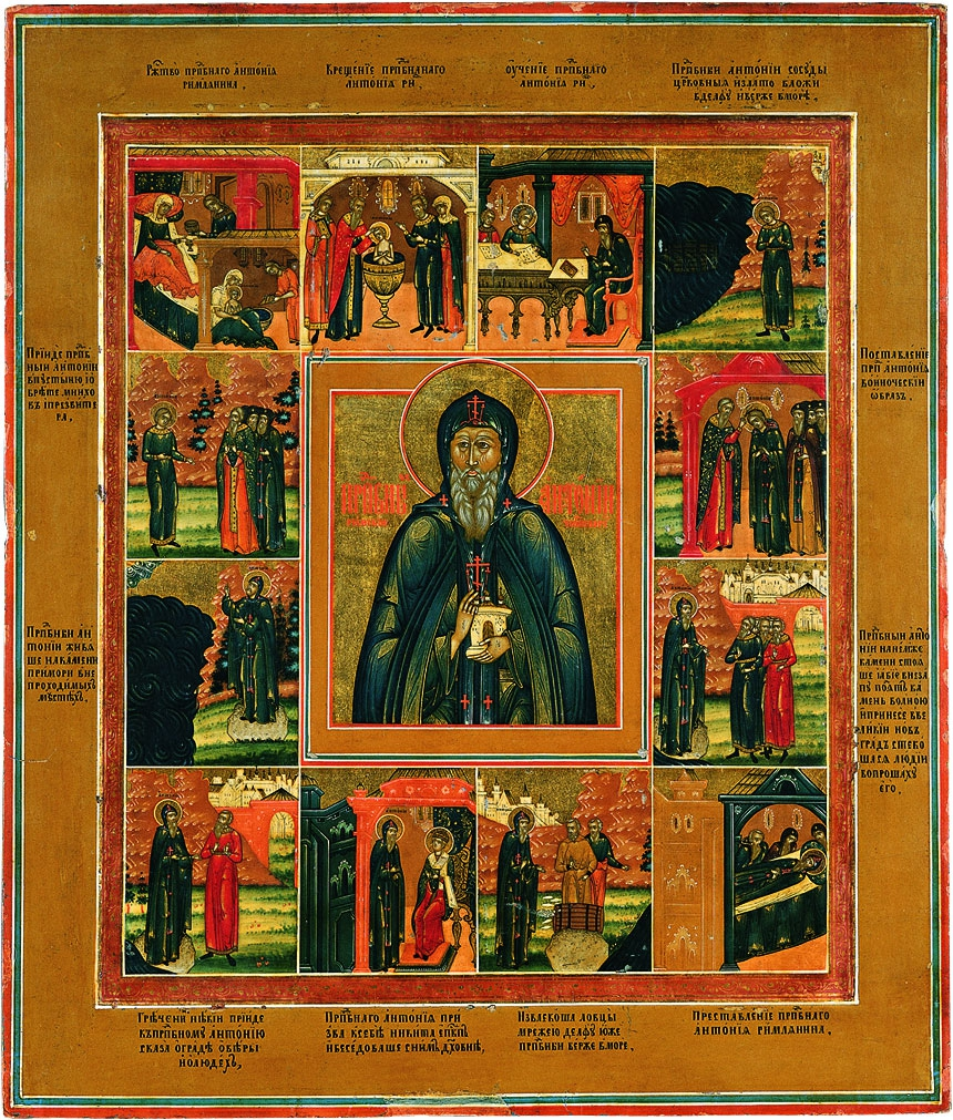 Icon of Saint Anthony the Roman. According to medieval tradition, the saint was born in Rome, persecuted by Catholics for his Orthodox views, and ultimately miraculously transported to Novgorod over water on a floating piece of rock.